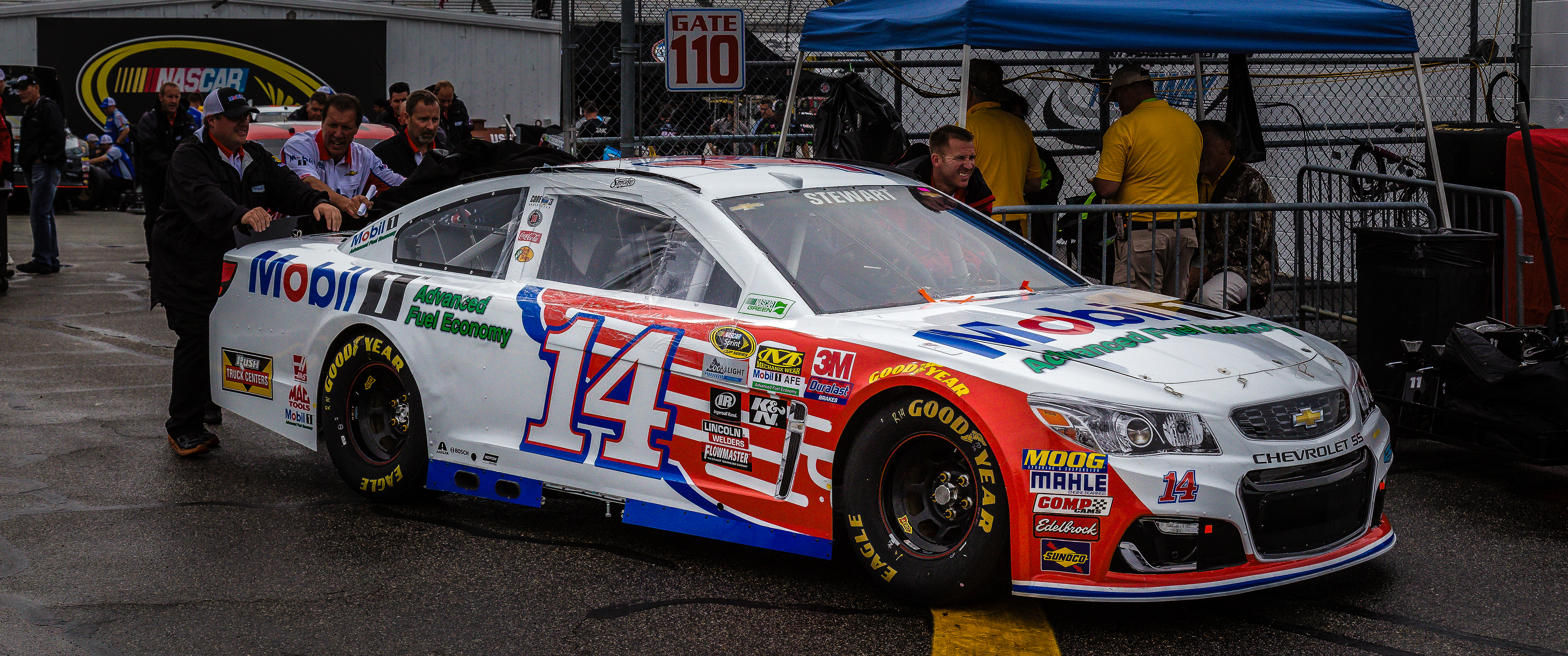 Virginia